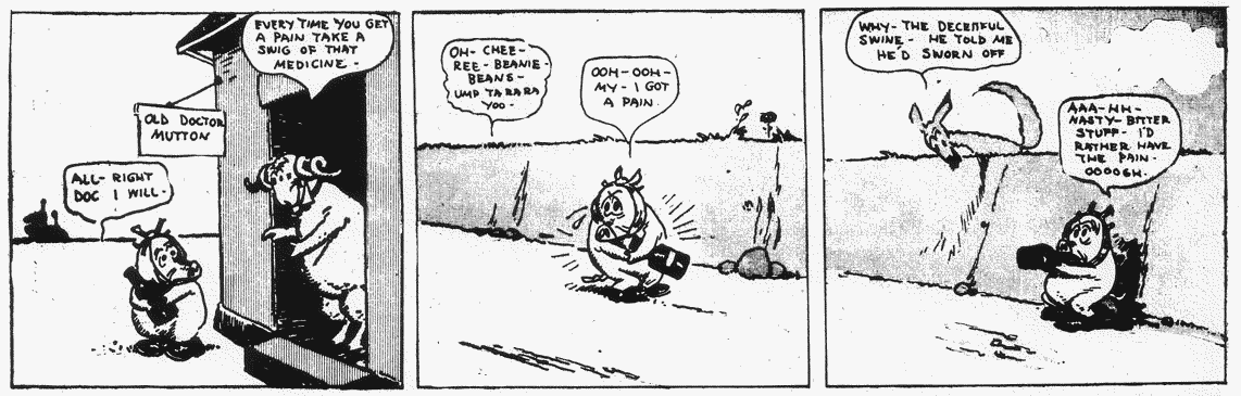 Top half of Daniel and Pansy comic strip by George Herriman, 1909-12-04, cropped and retouched from original File:Daniel and Pansy 1909-12-04.jpg